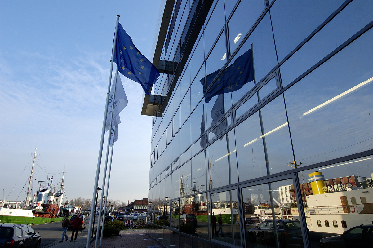 Main building of ttz Bremerhaven at Fischkai 1 in the fishing harbor of Bremerhaven, Germany.